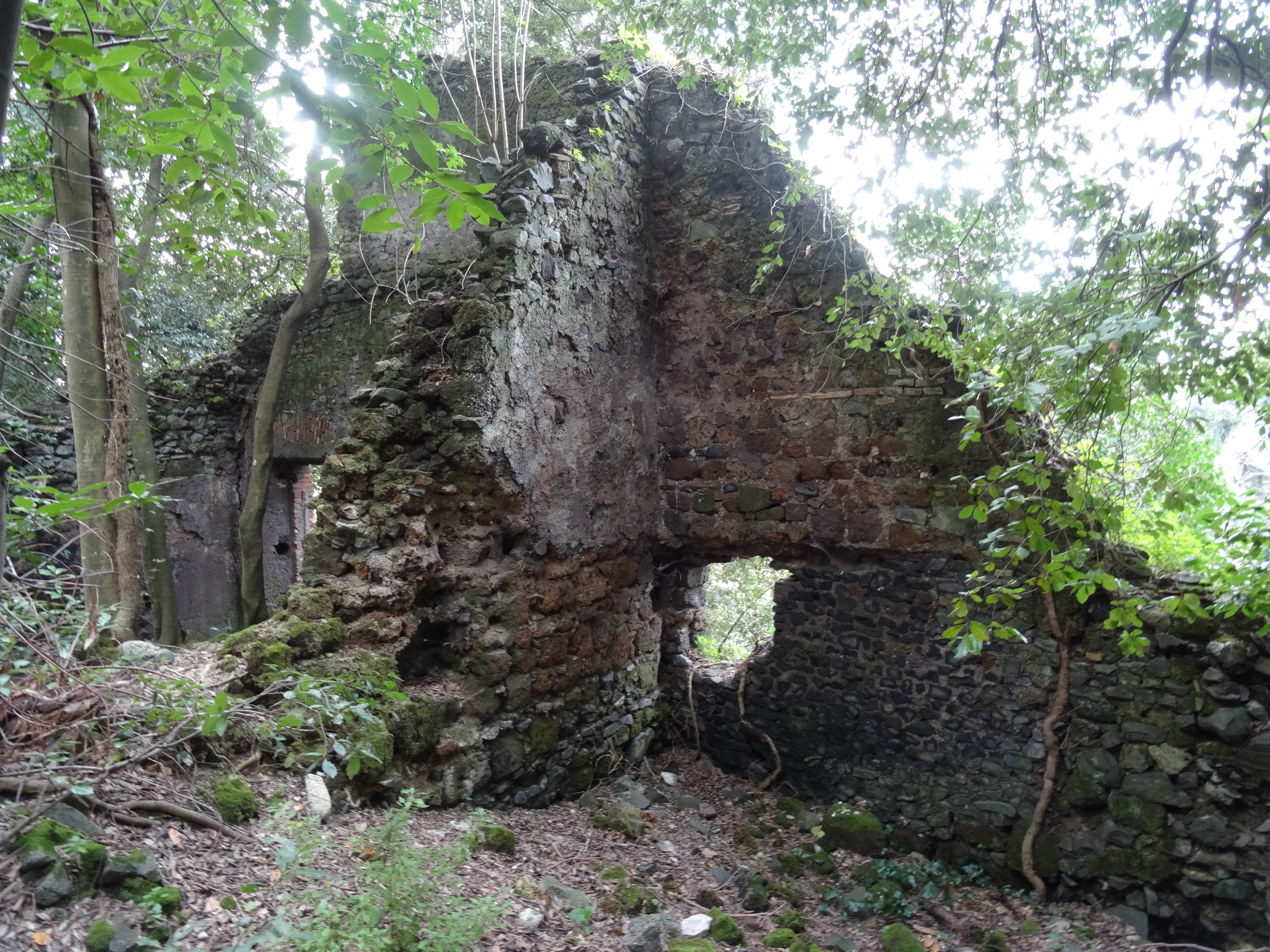 Galeria Antica